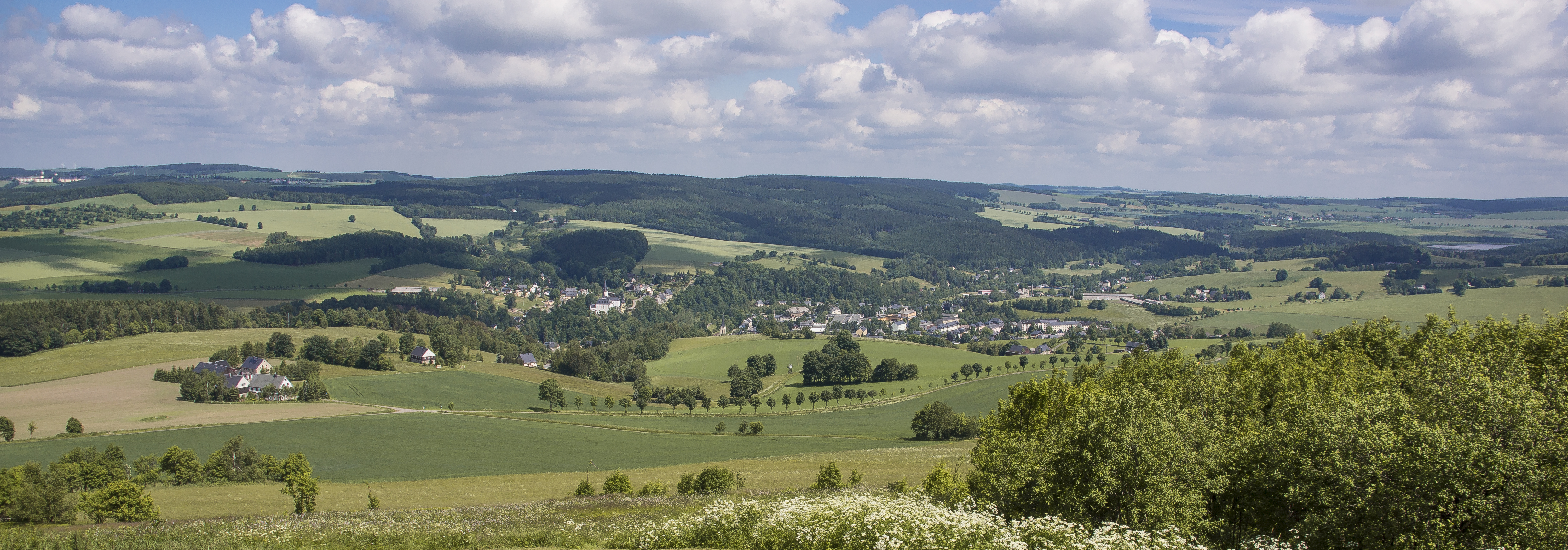 View from Schwartenberg to Neuhausen/Eastern Ore Mountains